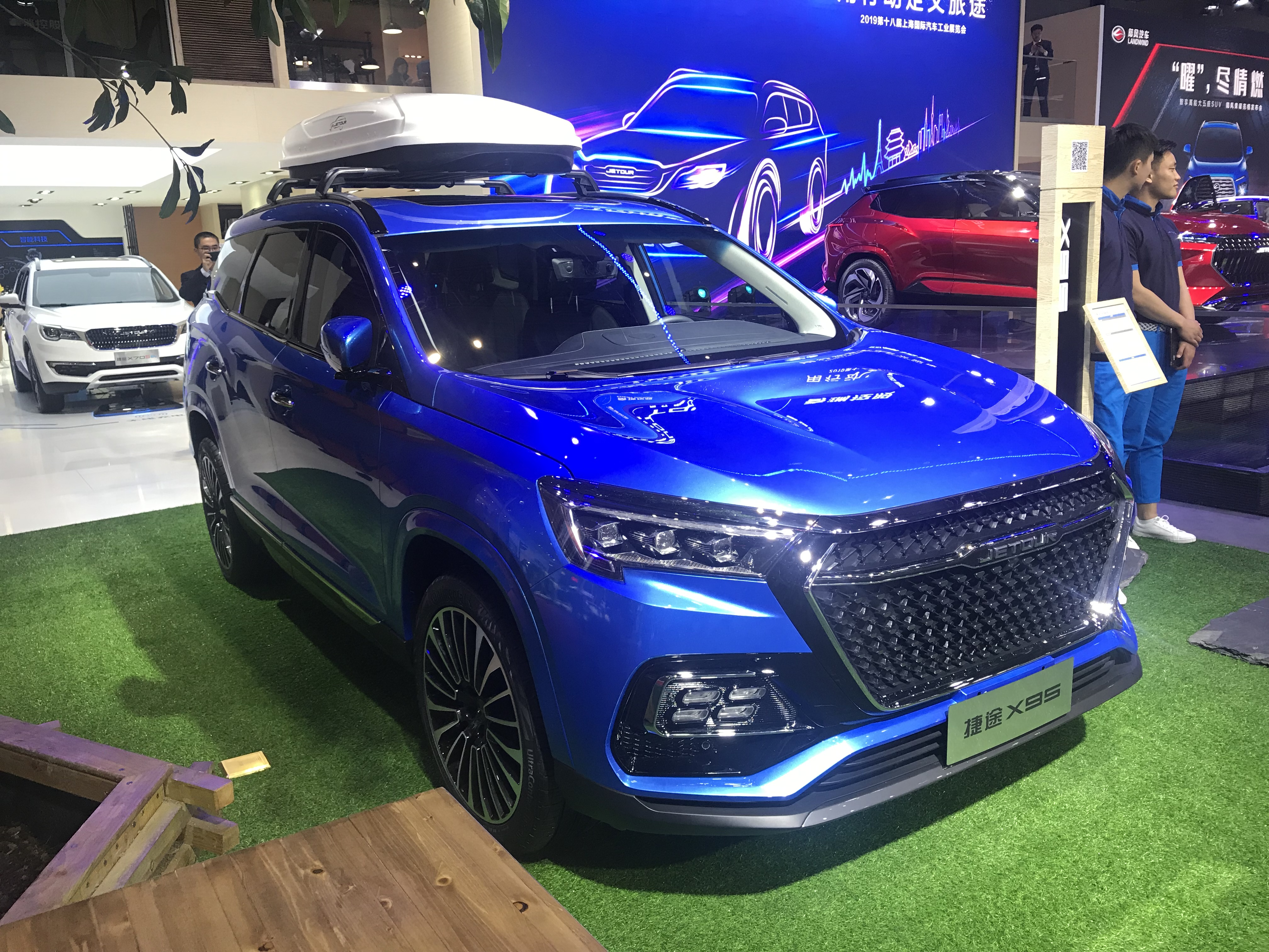 Jetour X95